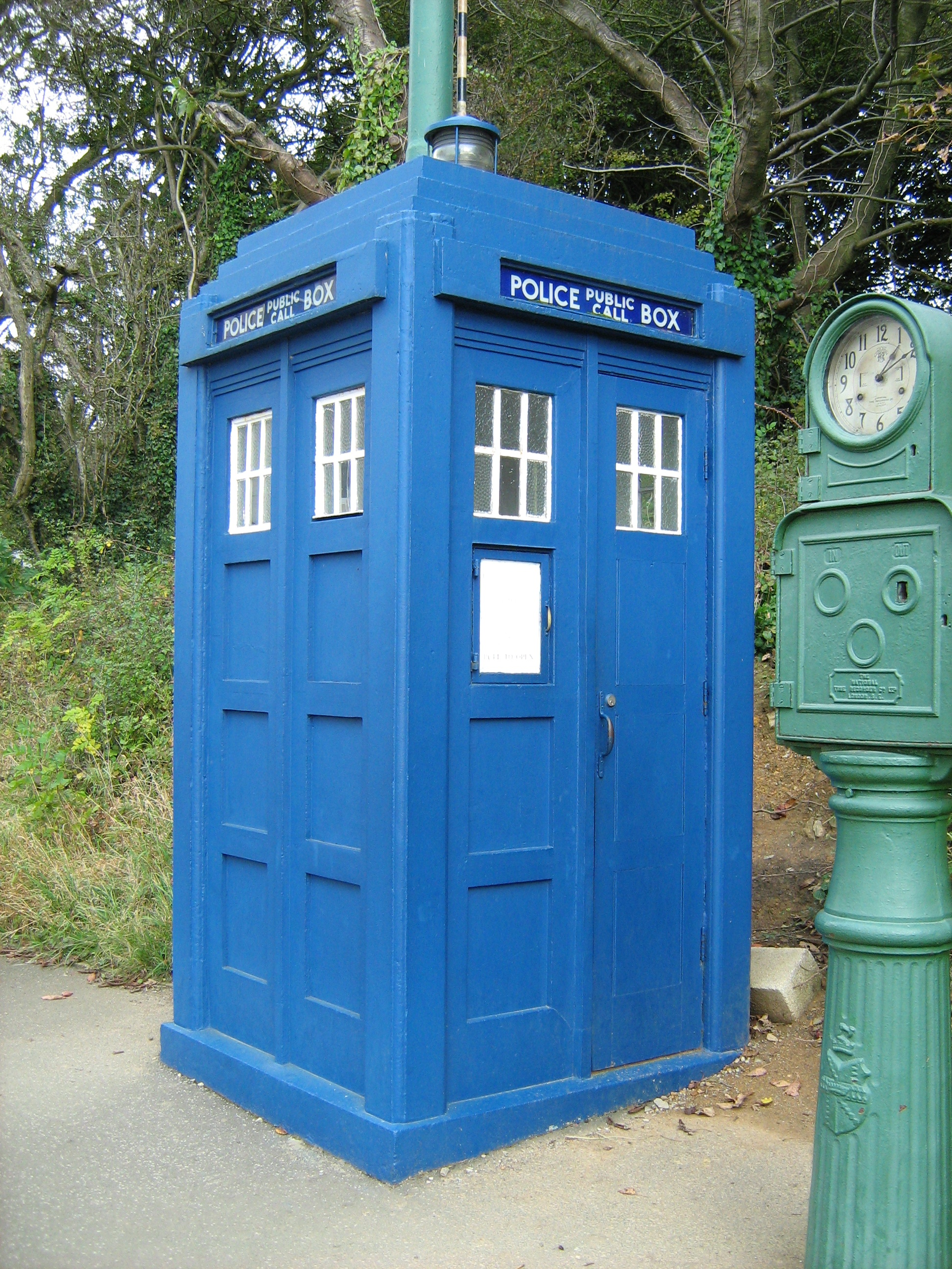 A "Tardis" Police Box, Crich Tramway Village.